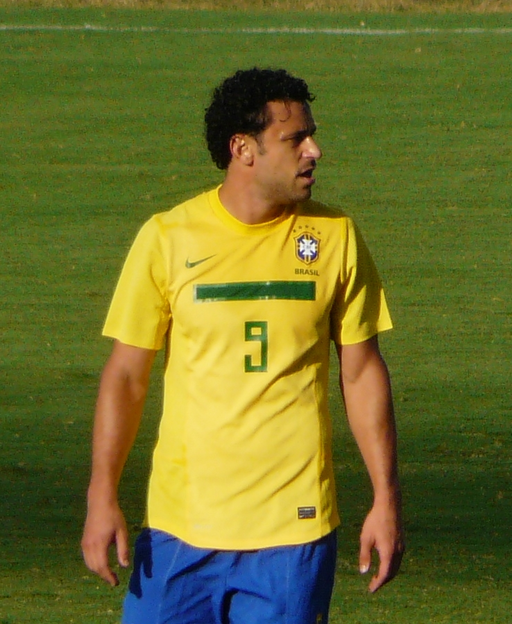 Jogo: Brasil 0X0 Holanda